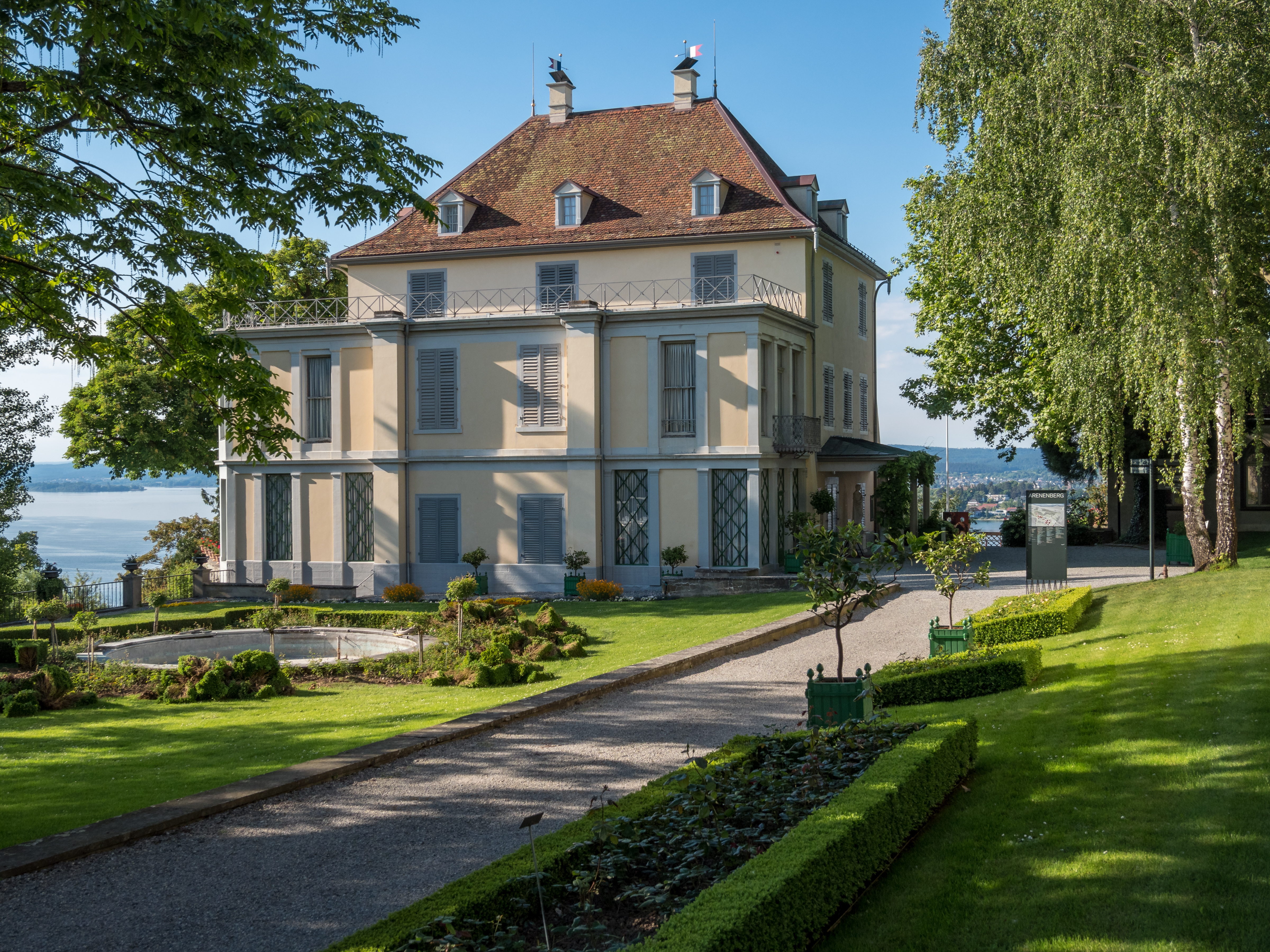 Arenenberg castle in Salenstein, canton of Thurgau, Switzerland.